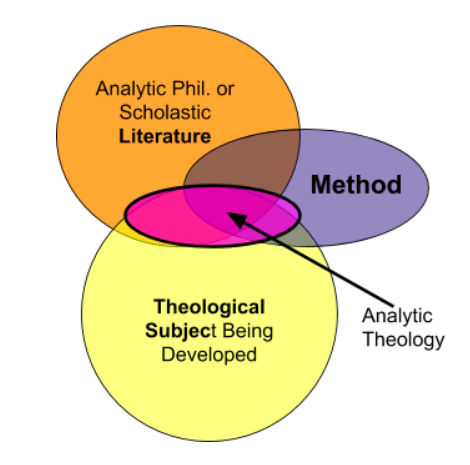 These three features are typically found in most Analytic Theology work.